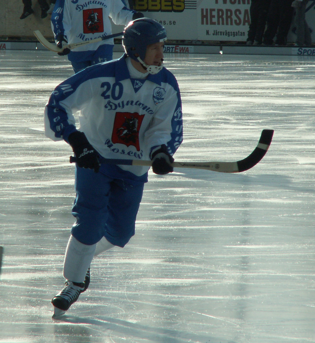 Ivan Maximov during Bandy world cup 2007